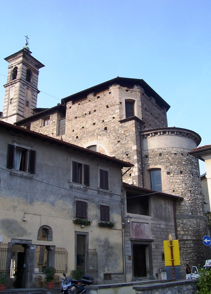 Church of St Martin. Lovere, Val Camonica